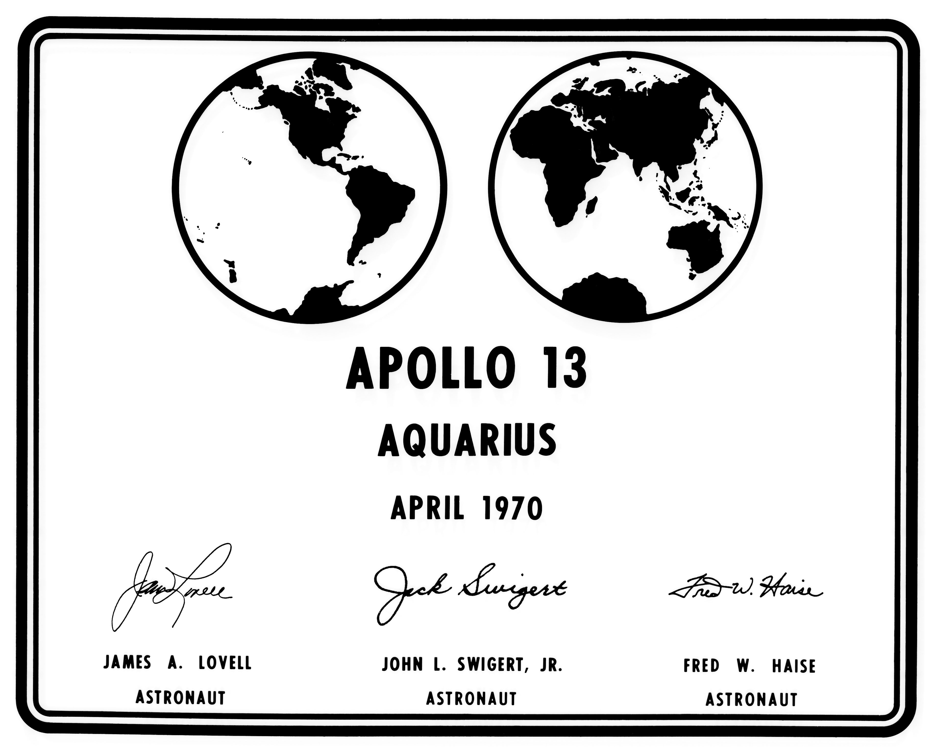 Scan of a fscimilie copy of the Apollo 13 replacement plaque for the LM. A photographic replica of the plaque which the Apollo 13 astronauts will leave behind on the moon during their lunar landing mission. Astronauts James A. Lovell Jr., commander; and Fred W. Haise Jr., lunar module pilot, will descend to the lunar surface in the Lunar Module (LM) "Aquarius". Astronaut John L. Swigert Jr., command module pilot, will remain with the Command and Service Modules (CSM) in lunar orbit. The plaque will be attached to the ladder of the landing gear strut on the LM's descent stage. Commemorative plaques were also left on the moon by the Apollo 11 and Apollo 12 astronauts.